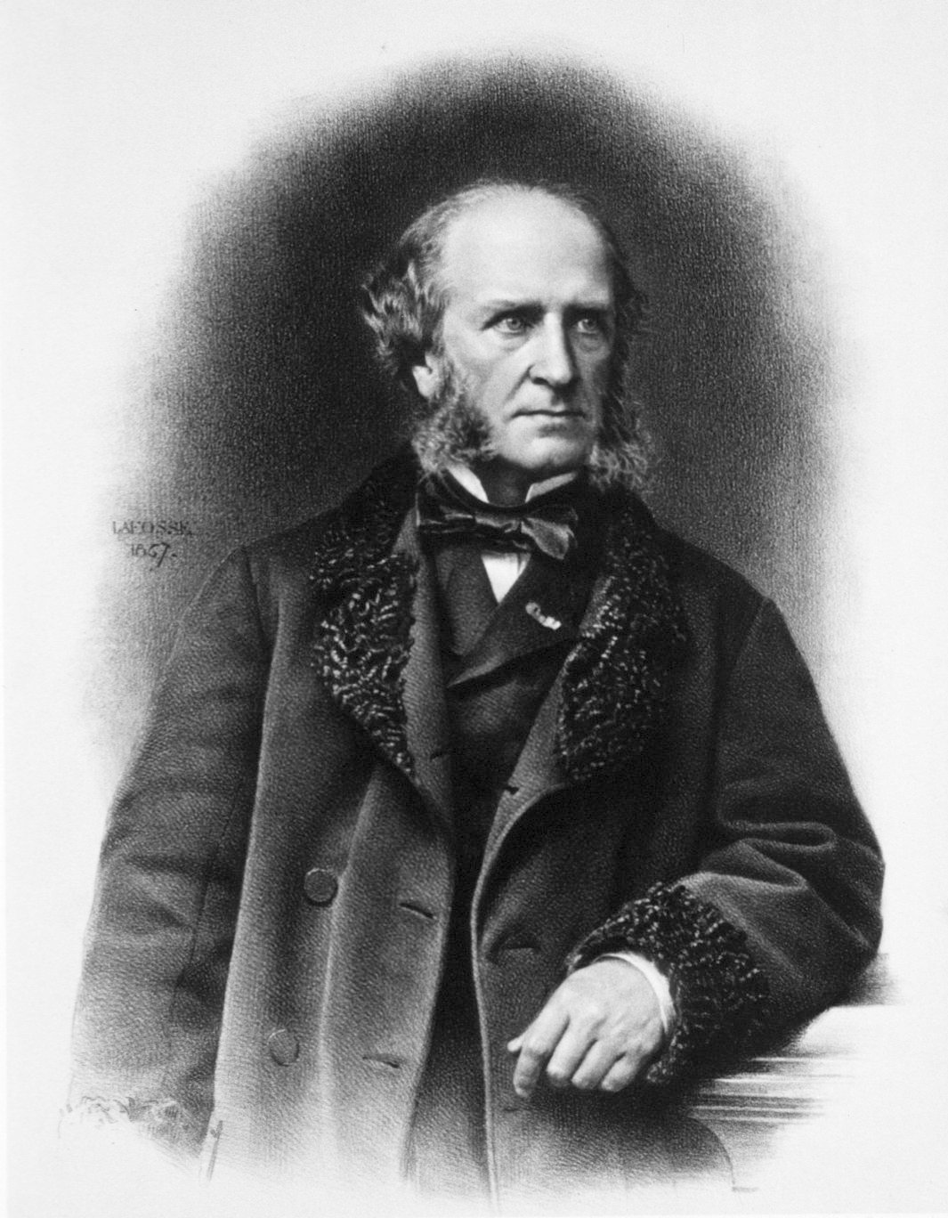 Noël Guéneau de Mussy, French doctor and surgeon